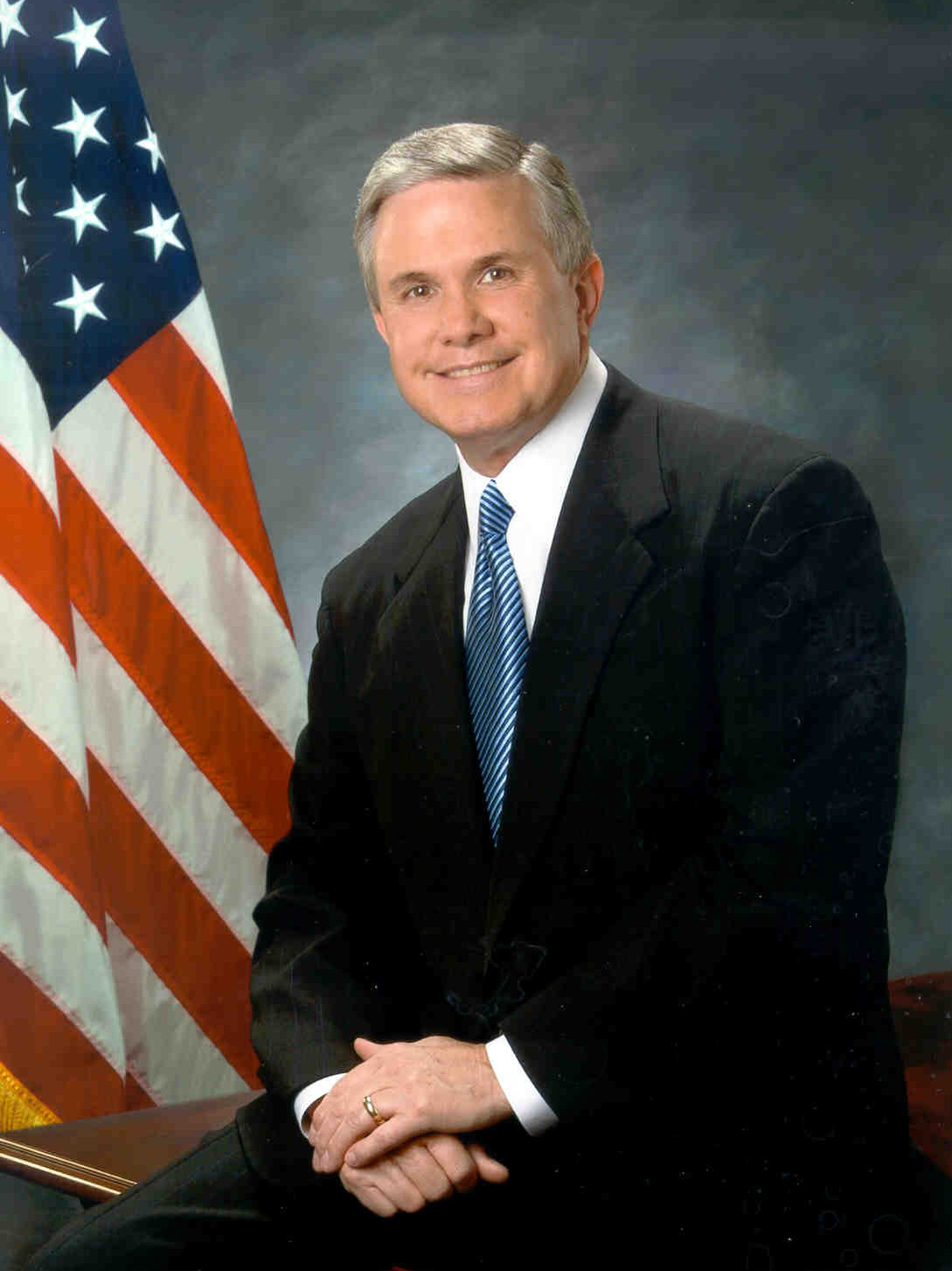 Official portrait of U.S. Representative Larry Combest of Texas